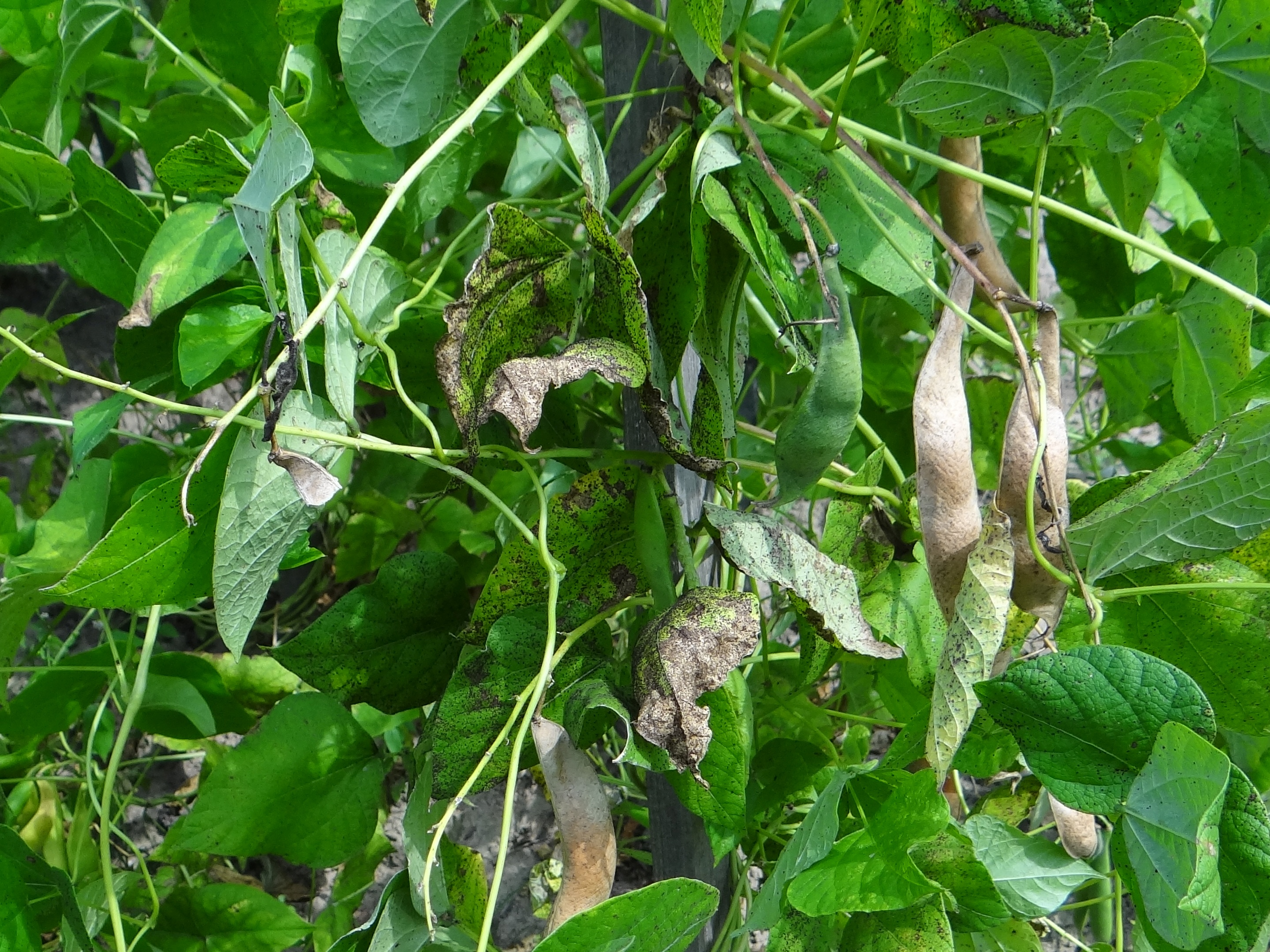 Uromyces appendiculatus on Phaseolus